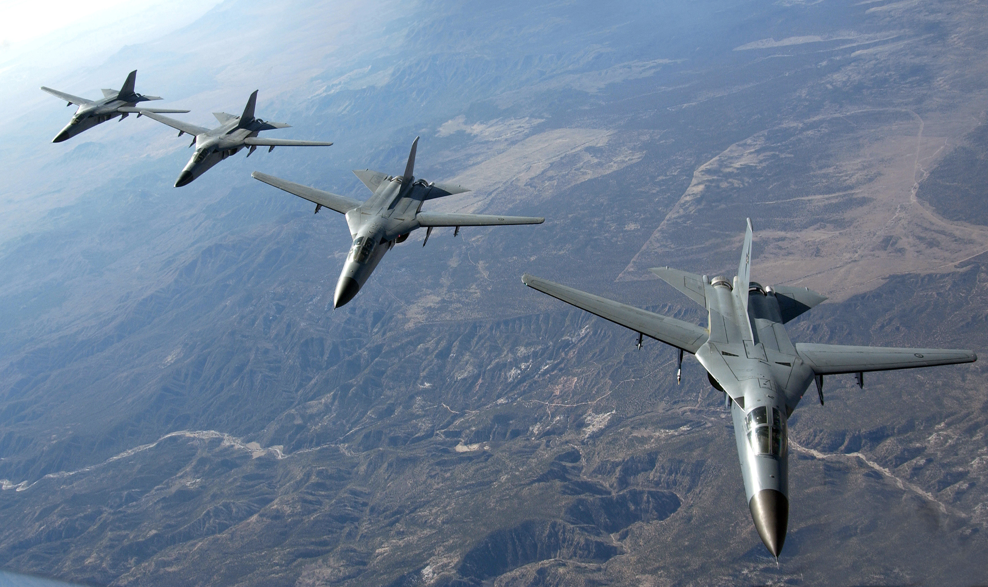 ID: 060214-F-6911G-135 Service Depicted: Air Force Command Shown: ACC Royal Australian Air Force F-111 aircraft fly toward Nellis Air Force Base in Las Vegas, Nev., Feb. 14, 2006, after a refueling exercise during Red Flag 06-1. Red Flag is designed to test the warfighting skills of aircrews in realistic combat situations. Location: NELLIS AIR FORCE BASE, NEV. USA Camera Operator: MASTER SGT. KEVIN J. GRUENWALD Date Shot: 14 Feb 2006